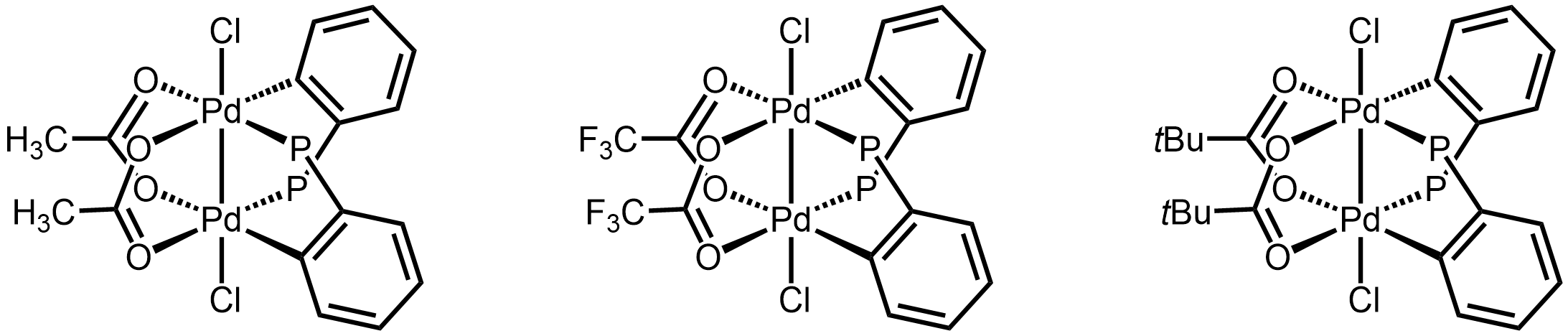 Palladium(III)